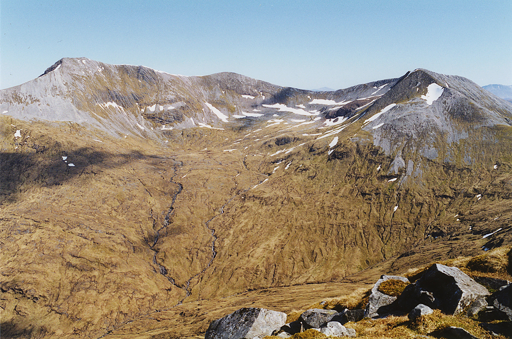 View south east from An Gearanach Looking over Coire na Gabhalach to the Mamore ridge from Binnein Mor to Na Gruagaichean.